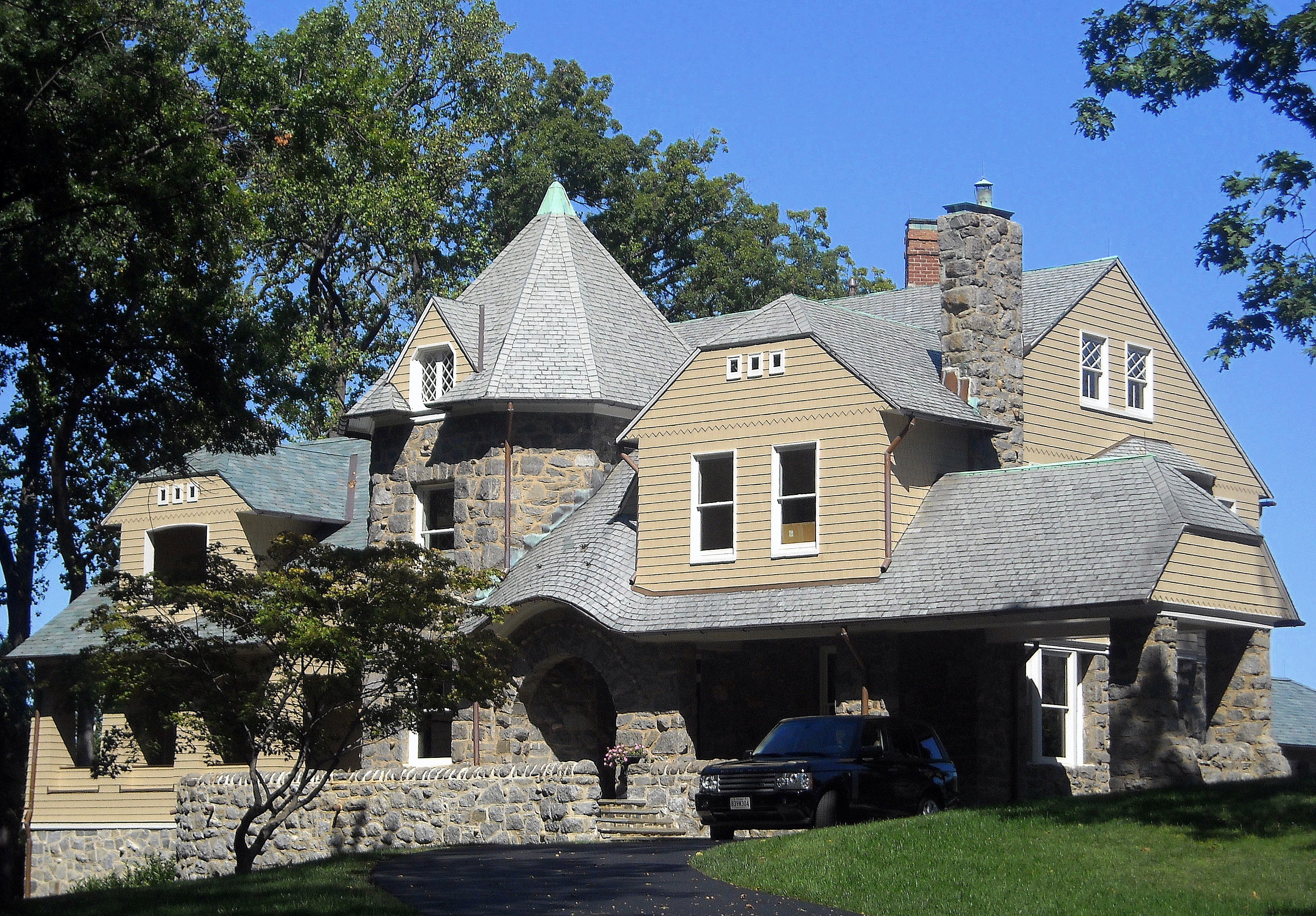 Owl's Nest, also known as the Crounse House, located at 3031 Gates Road NW in the Forest Hills neighborhood of Washington, D.C. The house was added to the District of Columbia Inventory of Historic Sites in 2001.